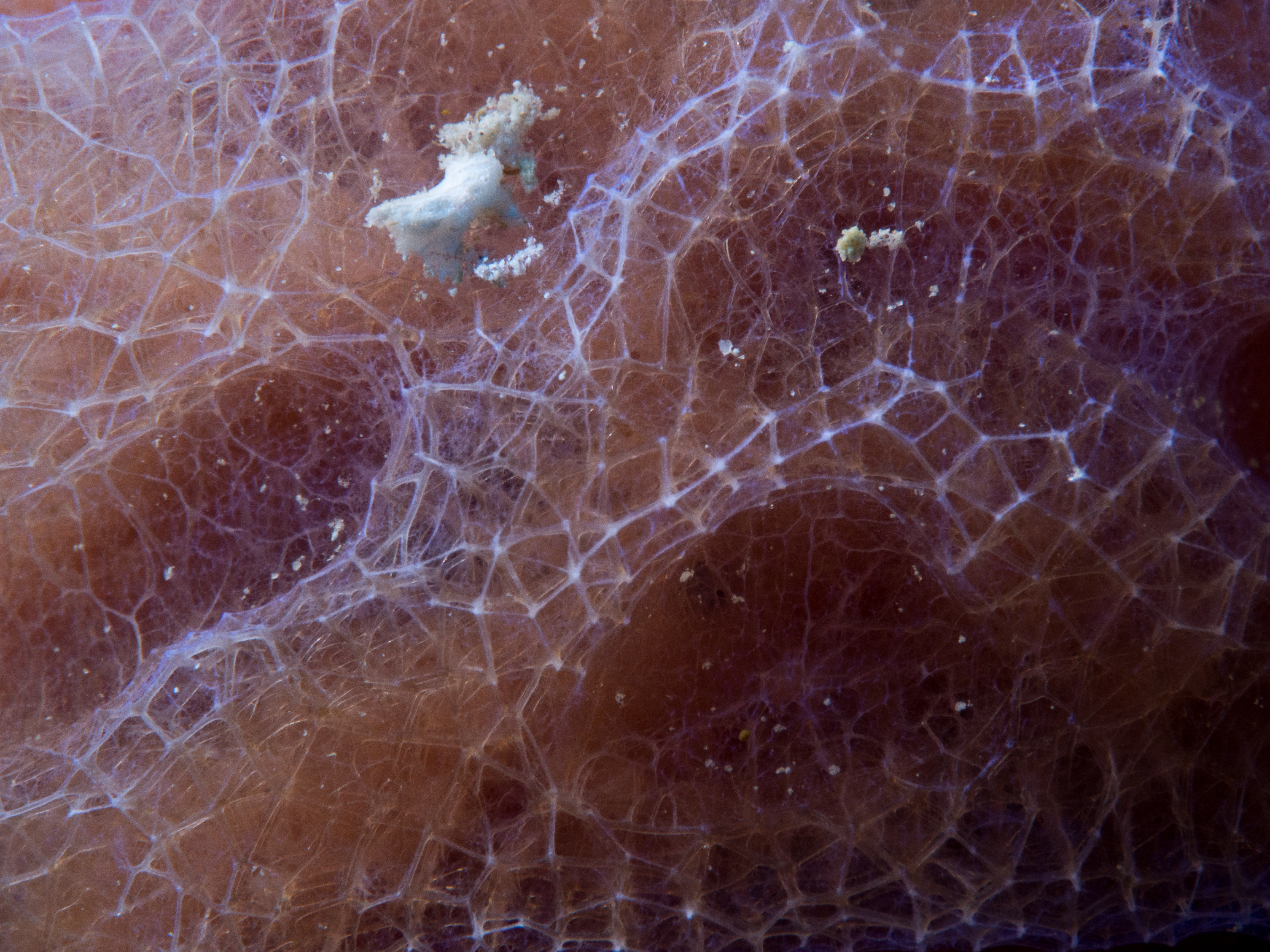 an Azure Vase Sponge photographed while scuba diving in Bonaire. The glass spicule skeleton is clearly visible. Photograph by Jessica Rosenkrantz.